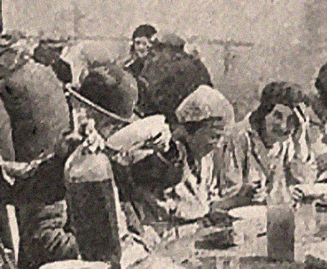 Old postcard grape harvest in Provence